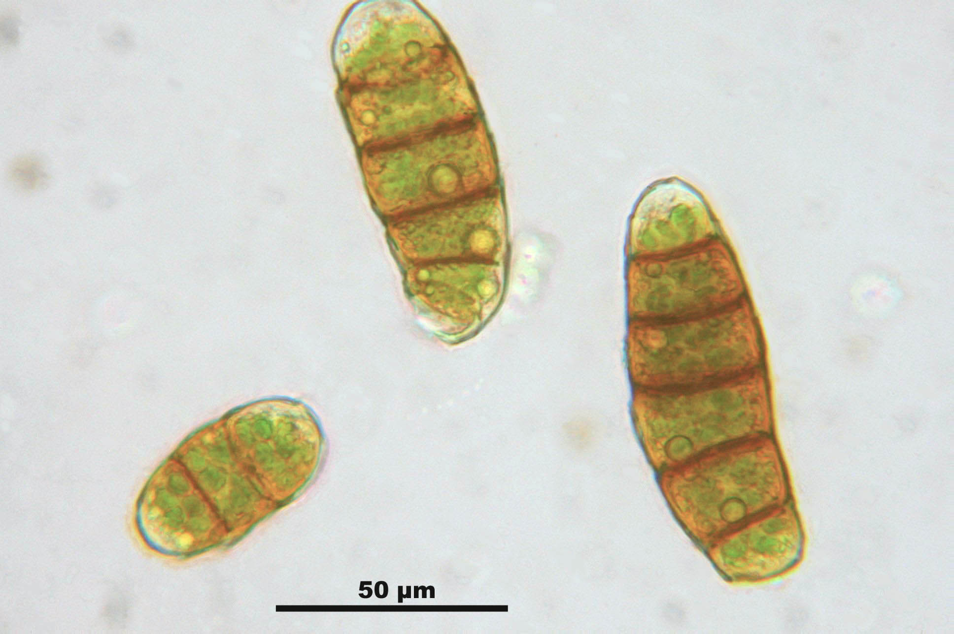 Orthotrichum obtusifolium